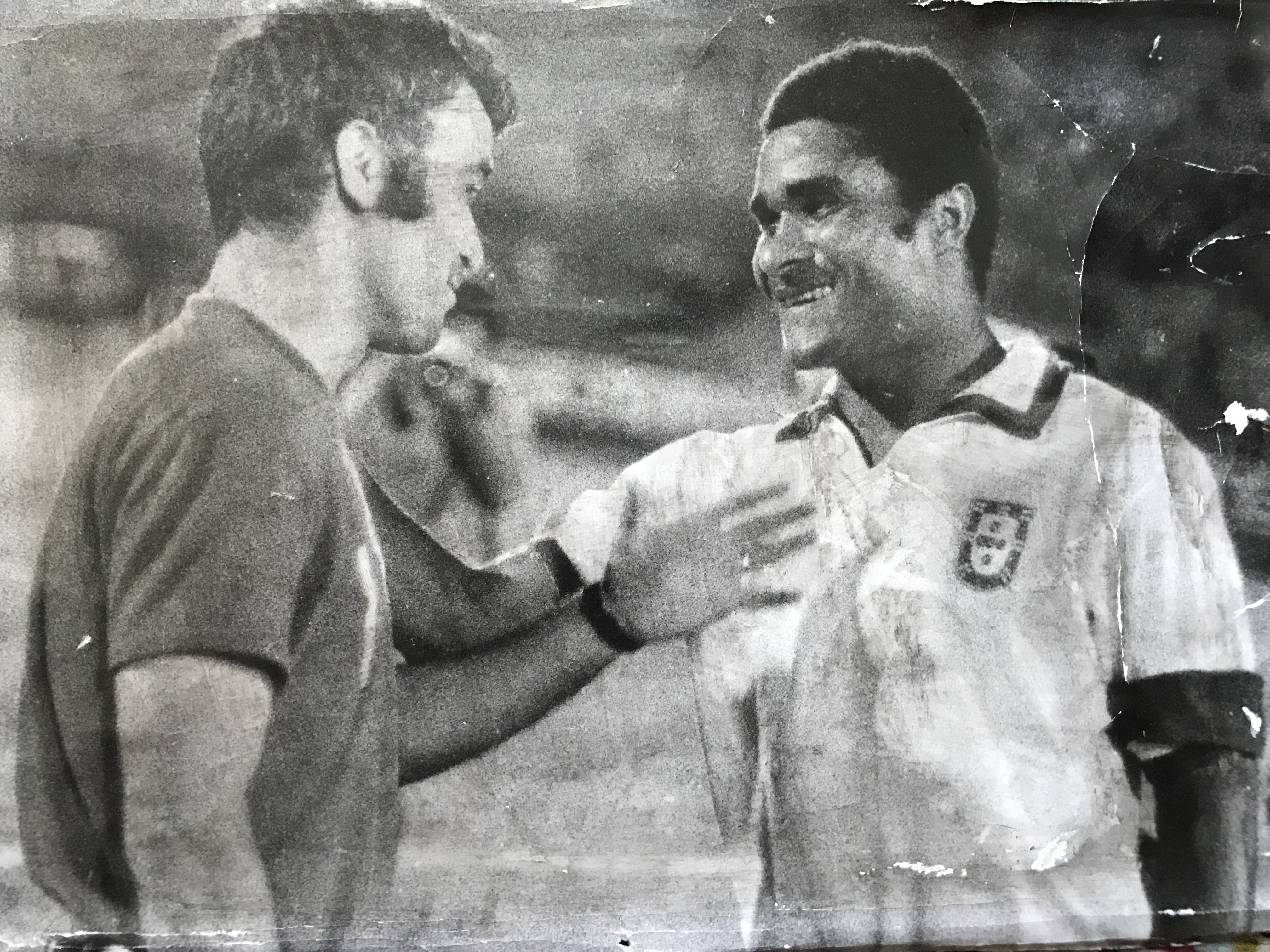 Eusébio da Silva Ferreira know as Eusébio was a Portuguese footballer.